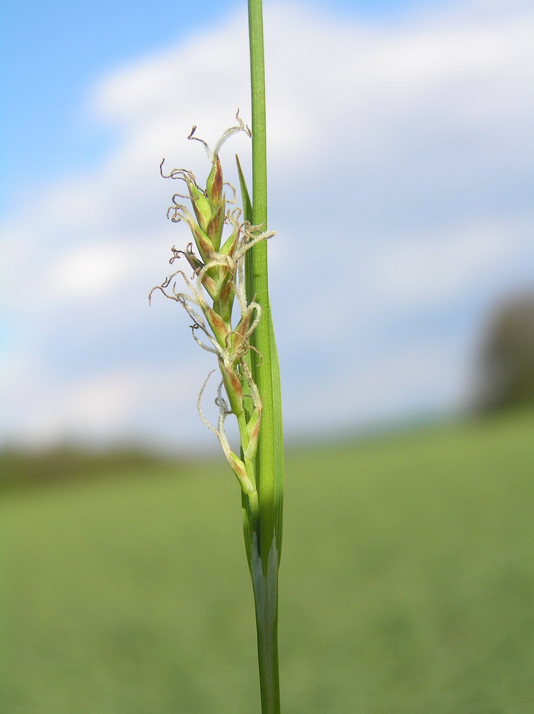 Carex pilosa, Dřevohostice, Czech Republic